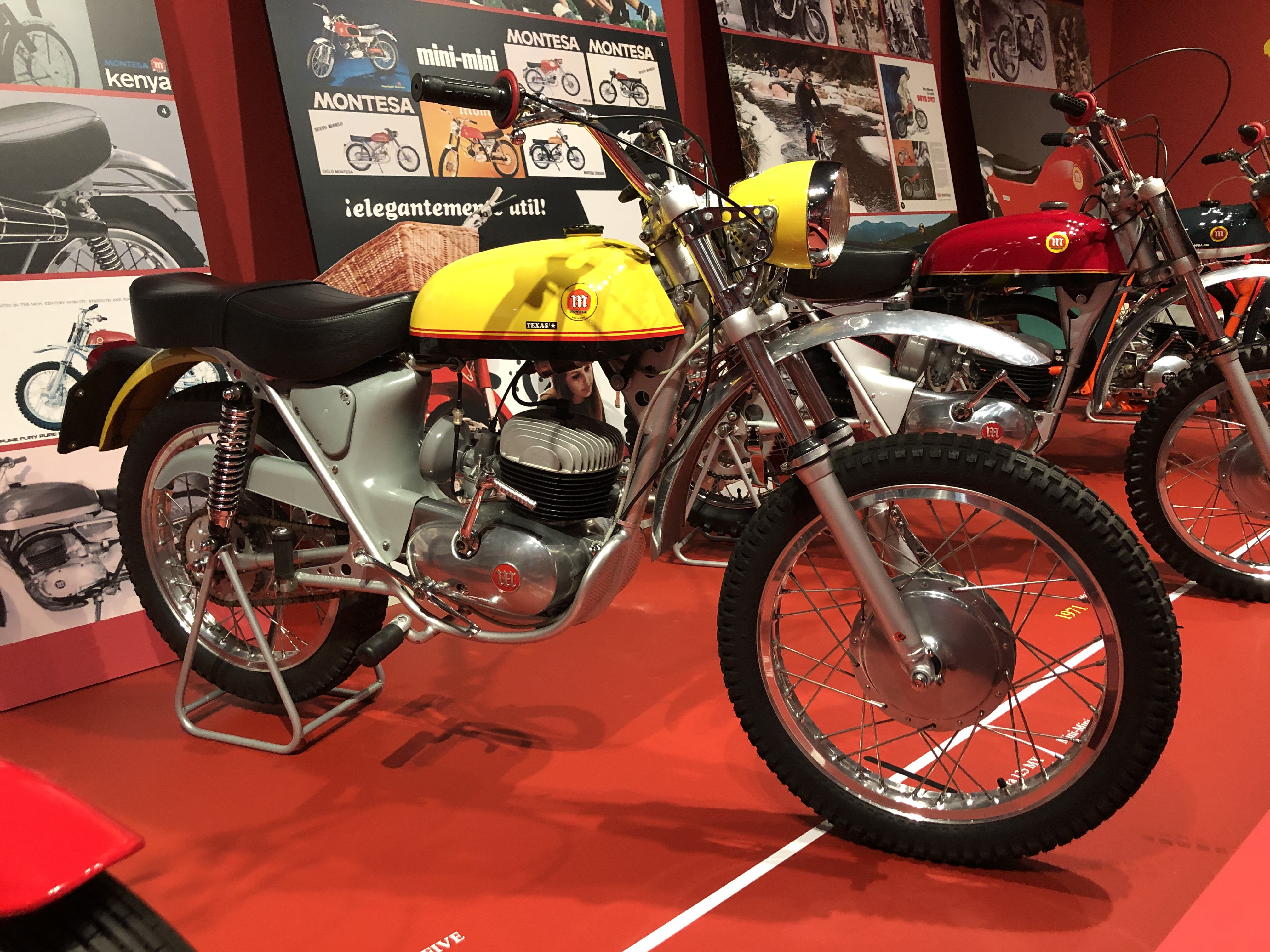 Montesa Texas 175 (1966), Mod. 12M, 174.7 cc